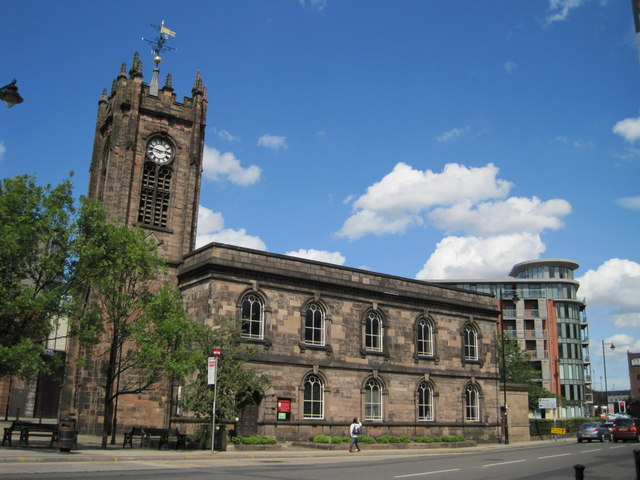 Sacred Trinity Church Sacred Trinity church was originally built as a chapel-of-ease to serve the growing population of Salford in 1635. It is Salford's oldest church and is a grade II listed building with many original features. Most of the current building dates from 1752 but it was restored in 1877-74 and adapted for more flexible use in the 1980’s. Painted by LS Lowry in 1925 it is one of the only views in his paintings that remains unchanged. William Webb Ellis was Christened here (famed for inventing the game of Rugby in 1823).